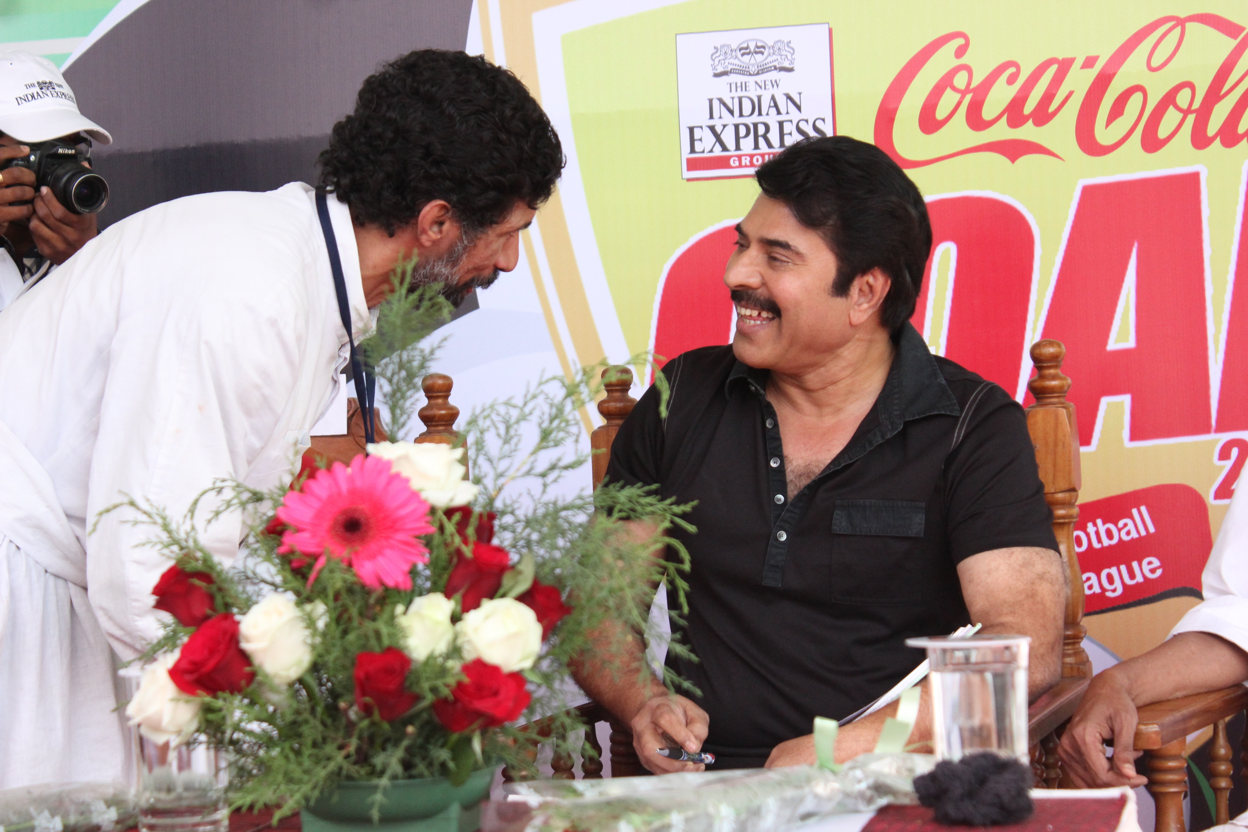 Malayalam actor Mammootty and Principal Rev. Dr. Prasant Payyappilly Palakkappilly during a function at Sacred Heart College, Thevara.